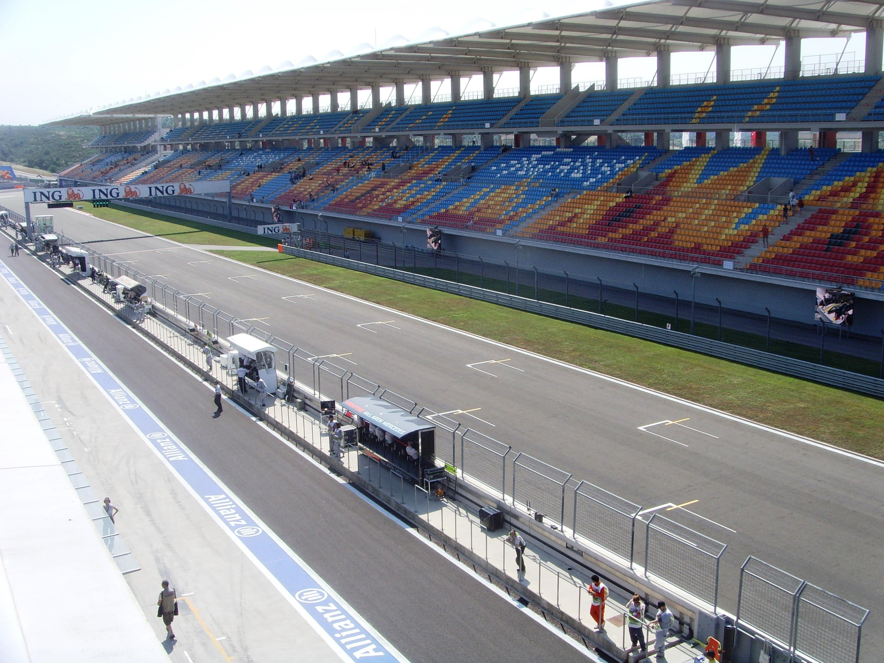 Front straight and main grandstand of Istanbul Park from terrace of the paddock club